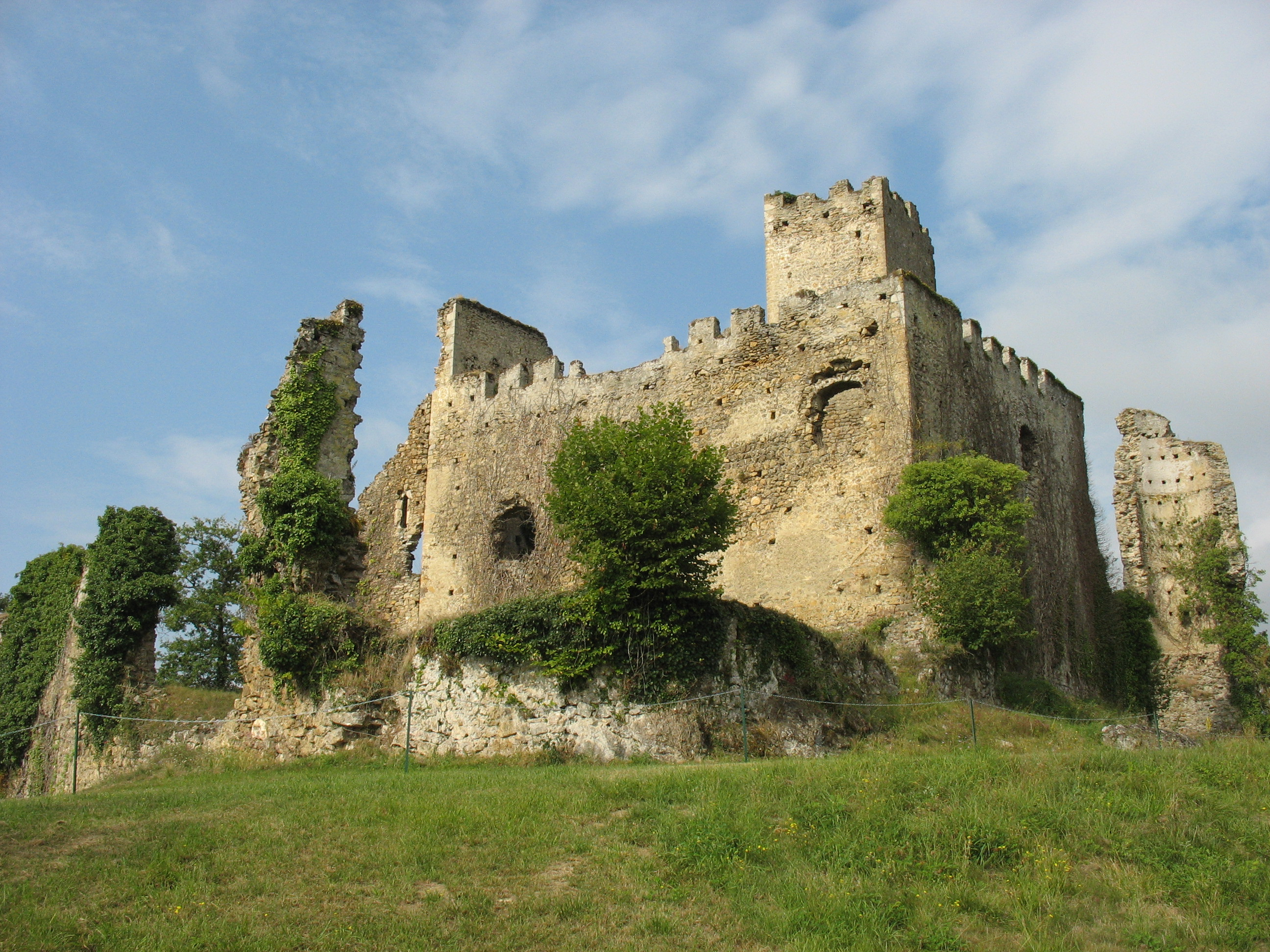 Ruin of the Château de Montespan, 12th - 14th century, Haute-Garonne, France